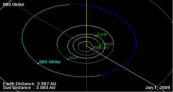 885 Ulrike orbit, and his position on 01 Jan 2009 (NASA Orbit Viewer applet)